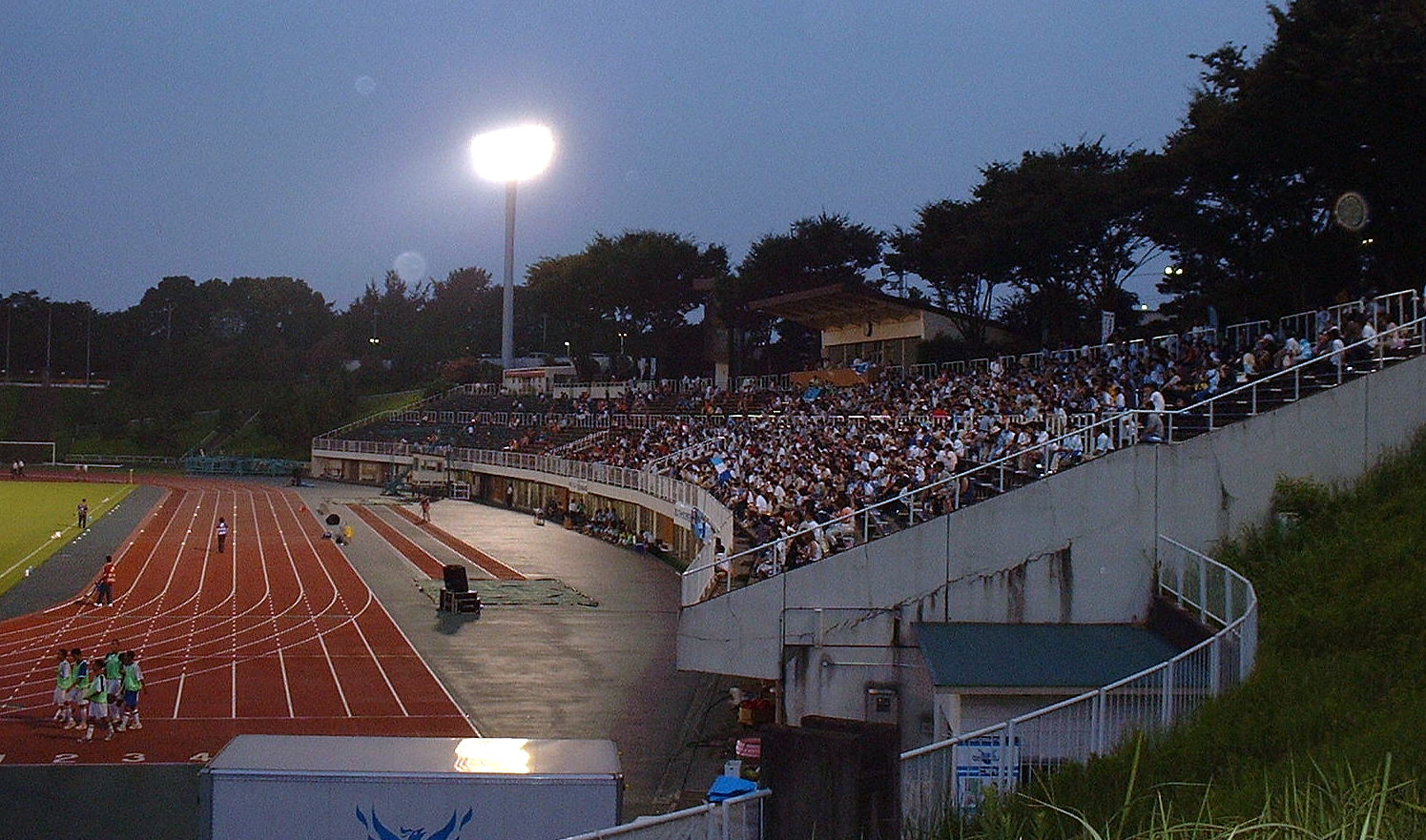 Mitsuzawa Park Main Stadium